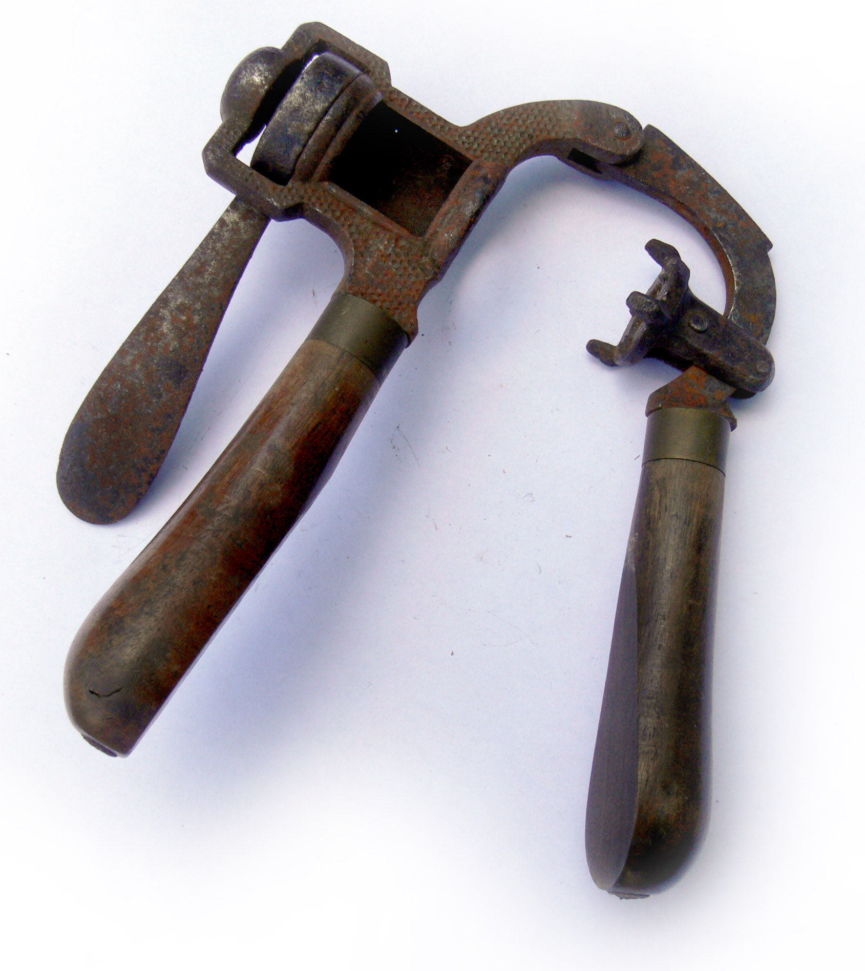 tool to make Shot-gun shells